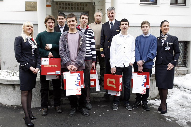 JAT Airways (Avio Company) signed contract about support of Mathematical Gymnasium and its students. This time the company also gave laptops to 8 MGB students that won first prize at the 100 best mathematicians competition (Romanian Master in Mathematics, competition for the best ranked 20 National Teams from previous International Mathematics Olympiad). MGB Students won the first place.